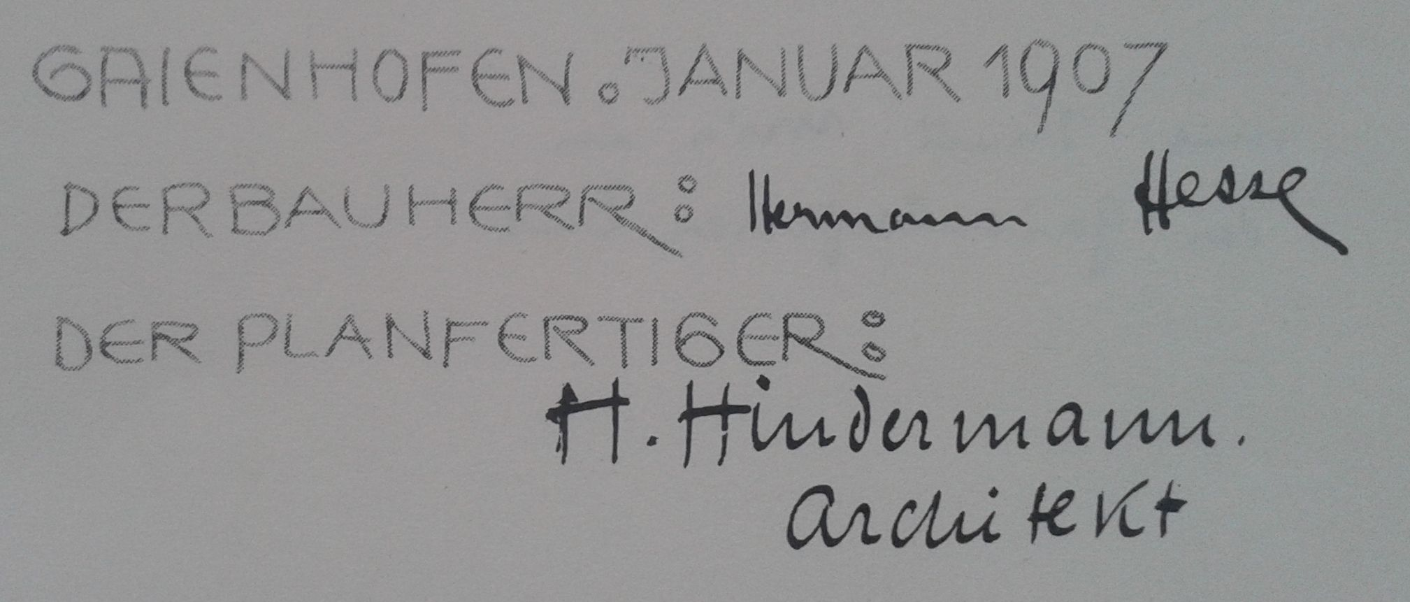 Signatures of Hermann Hesse and Hans Hindermann, plan of Hesse's house in Gaienhofen, 1907.